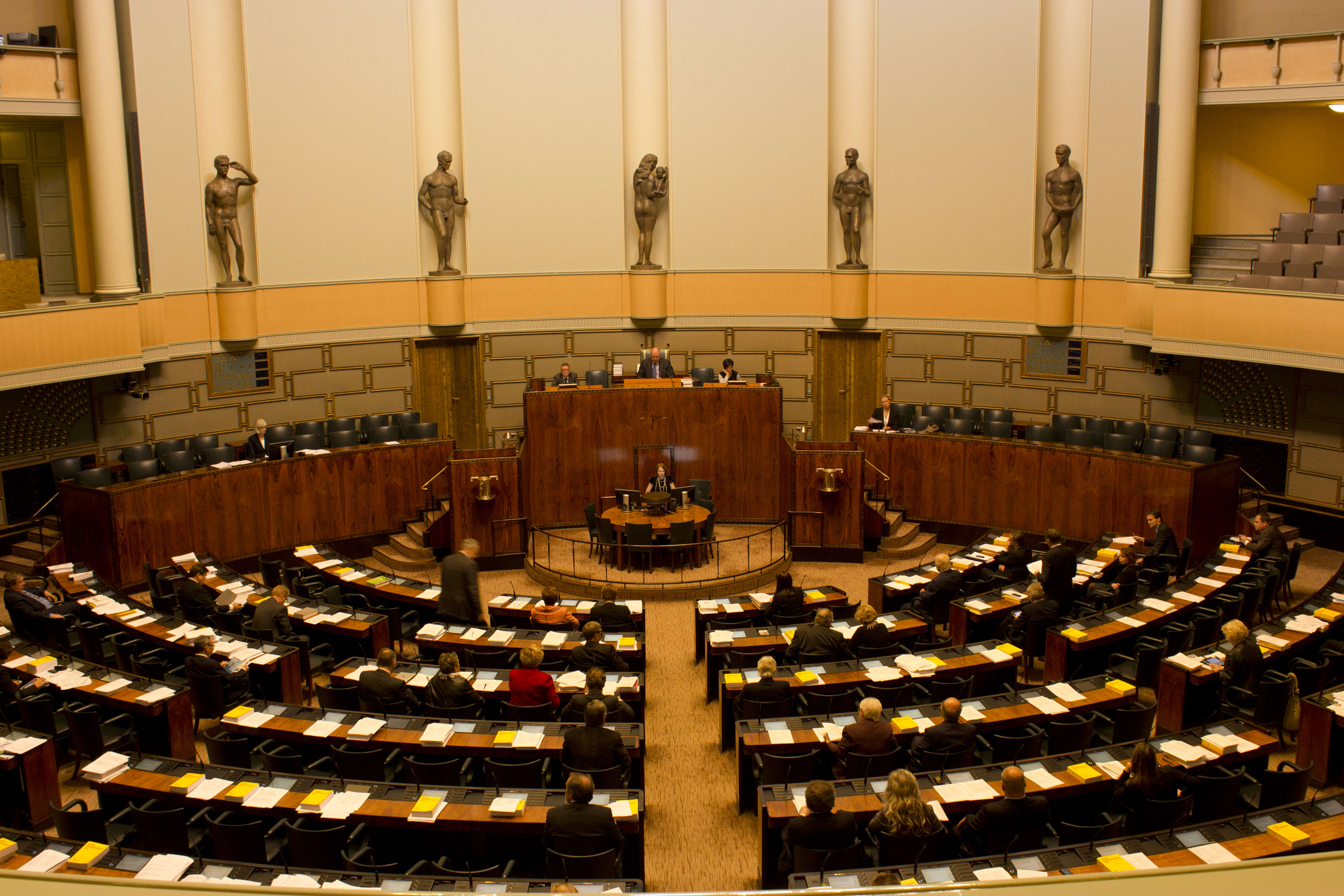 Session Hall of Parliament of Finland